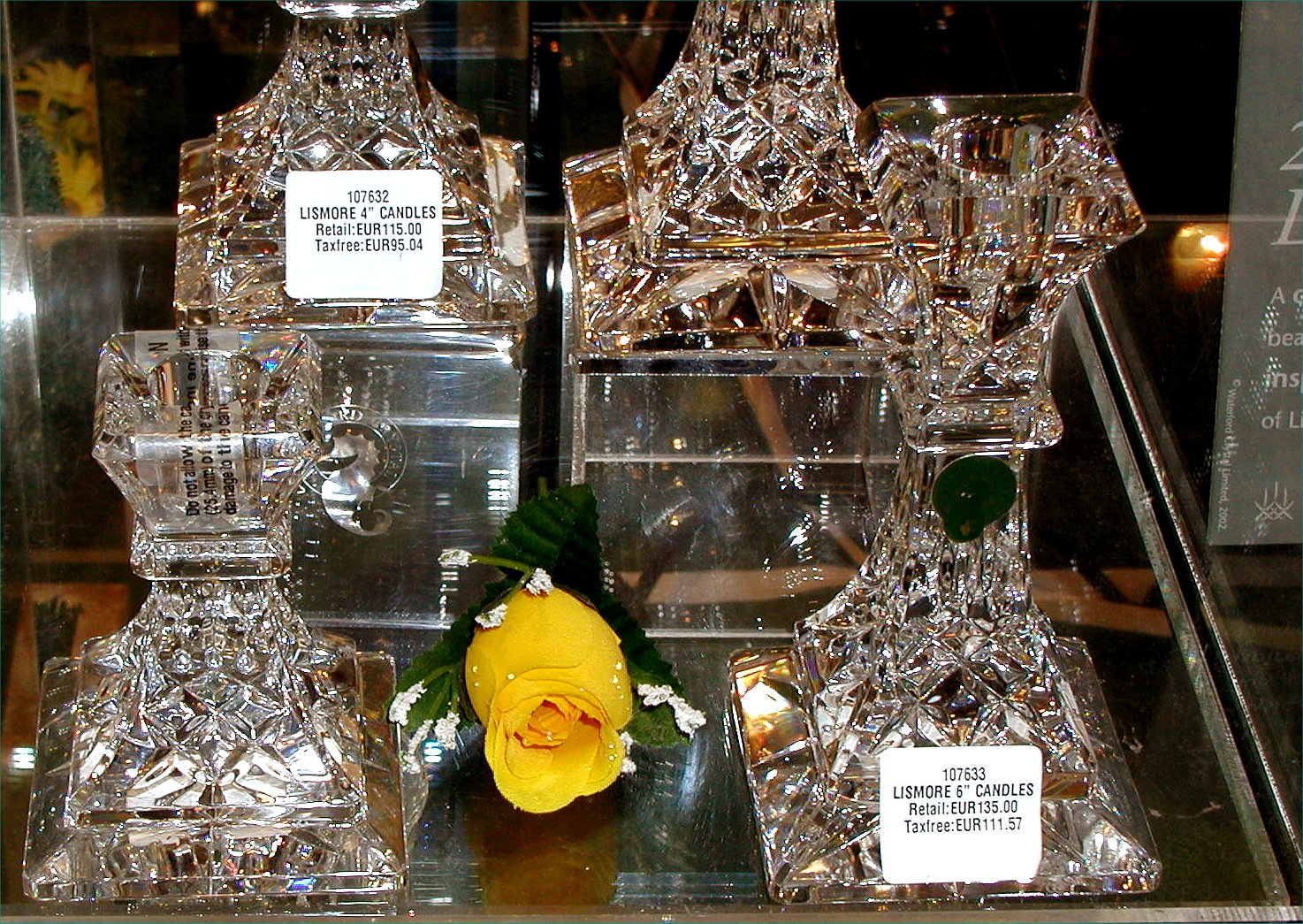 Display case at the Waterford Crystal factory